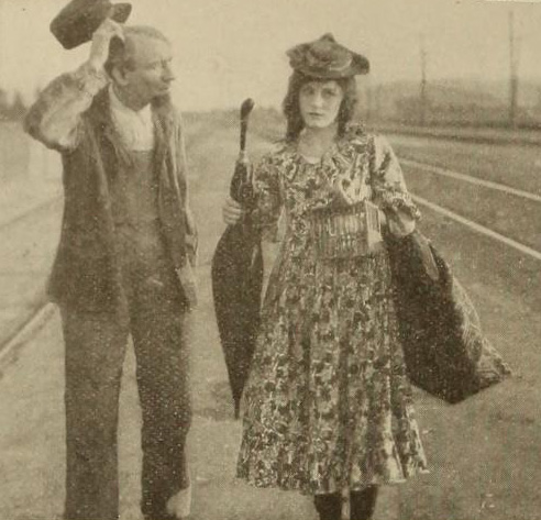 Screen shot of Viola Dan in the 1918 film, "Breakers Ahead"